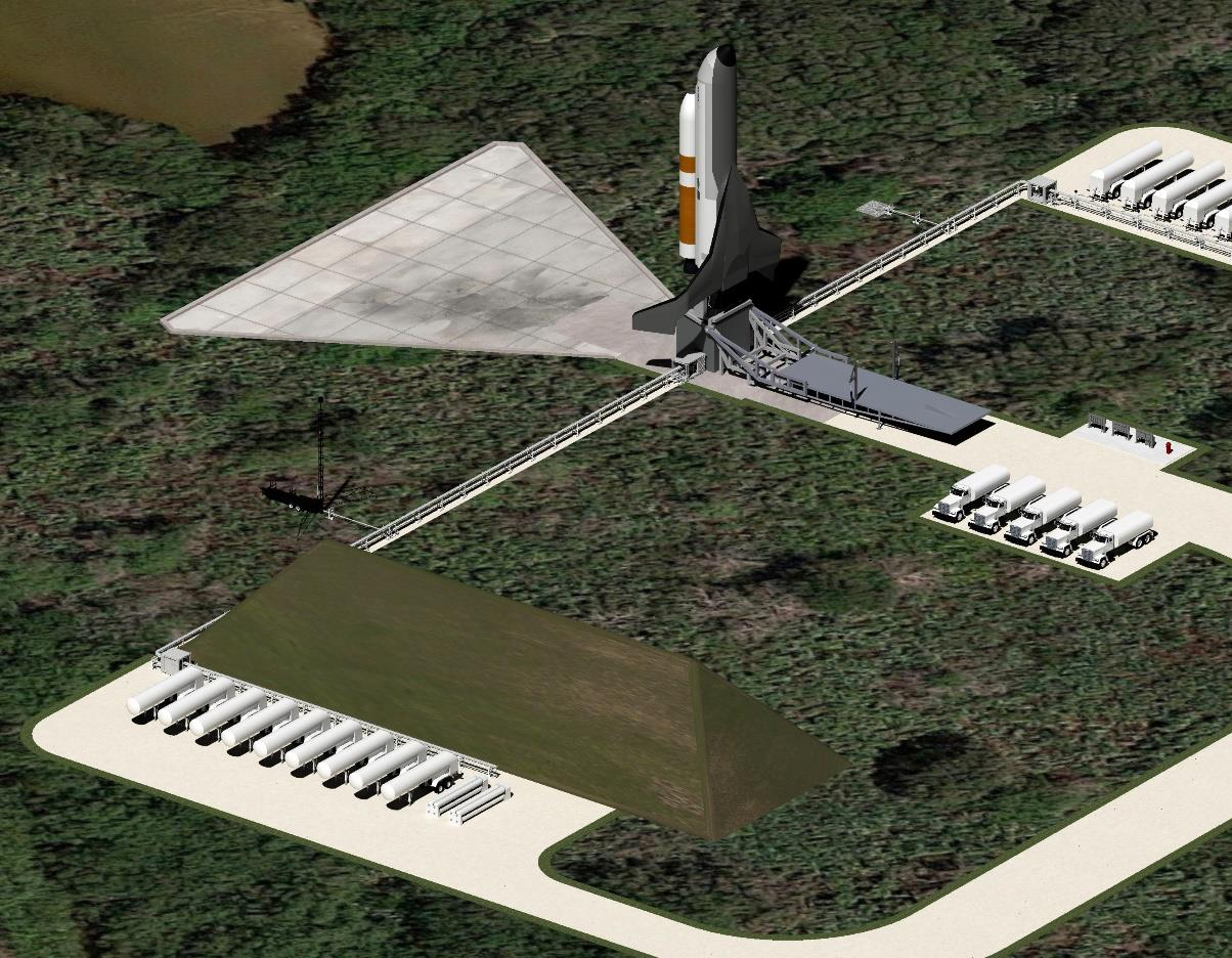 A render of the XS-1 Phantom Express launch vehicle at Launch Complex 48